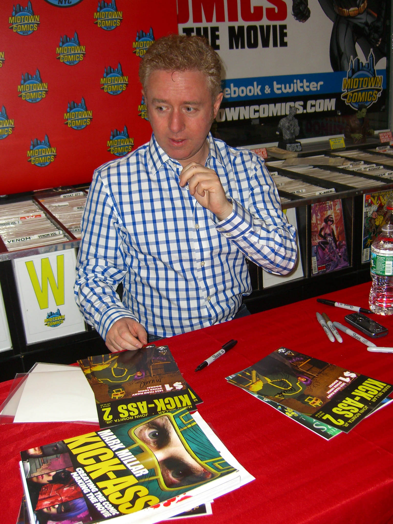 Scottish comics writer Mark Millar at an April 25, 2013 signing at Midtown Comics in Manhattan for his miniseries, Jupiter's Legacy, which debuted the day prior. In the photo, Millar is signing copies of one of his previous works, Kick-Ass 2, and posters for the 2010 feature film Kick-Ass. This photo was created by Luigi Novi. It is not in the public domain, and use of this file outside of the licensing terms is a copyright violation.